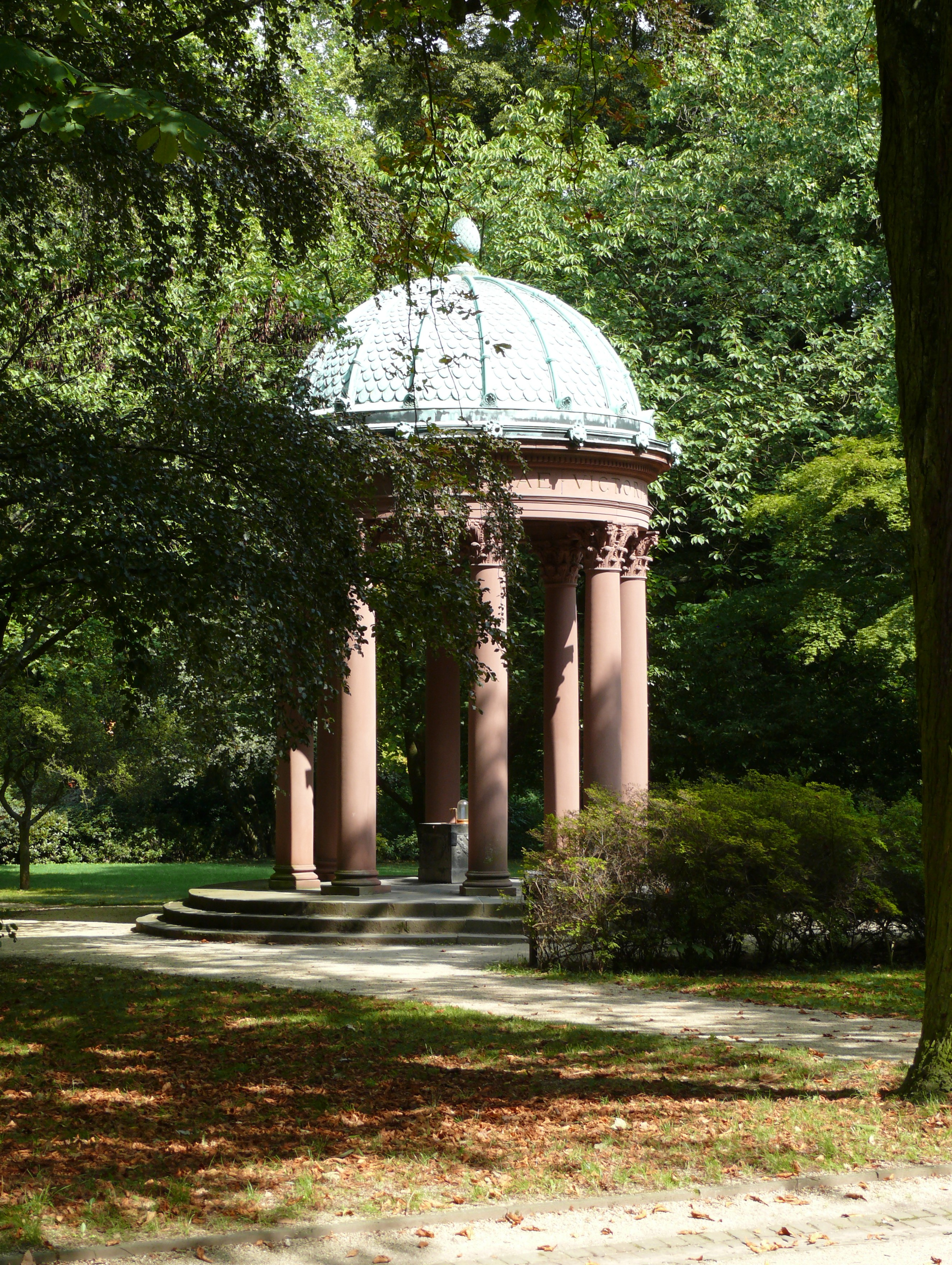 "Auguste-Viktoria-Quelle" (mineral spring) at "Kurpark" in Bad Homburg, Hesse, Germany